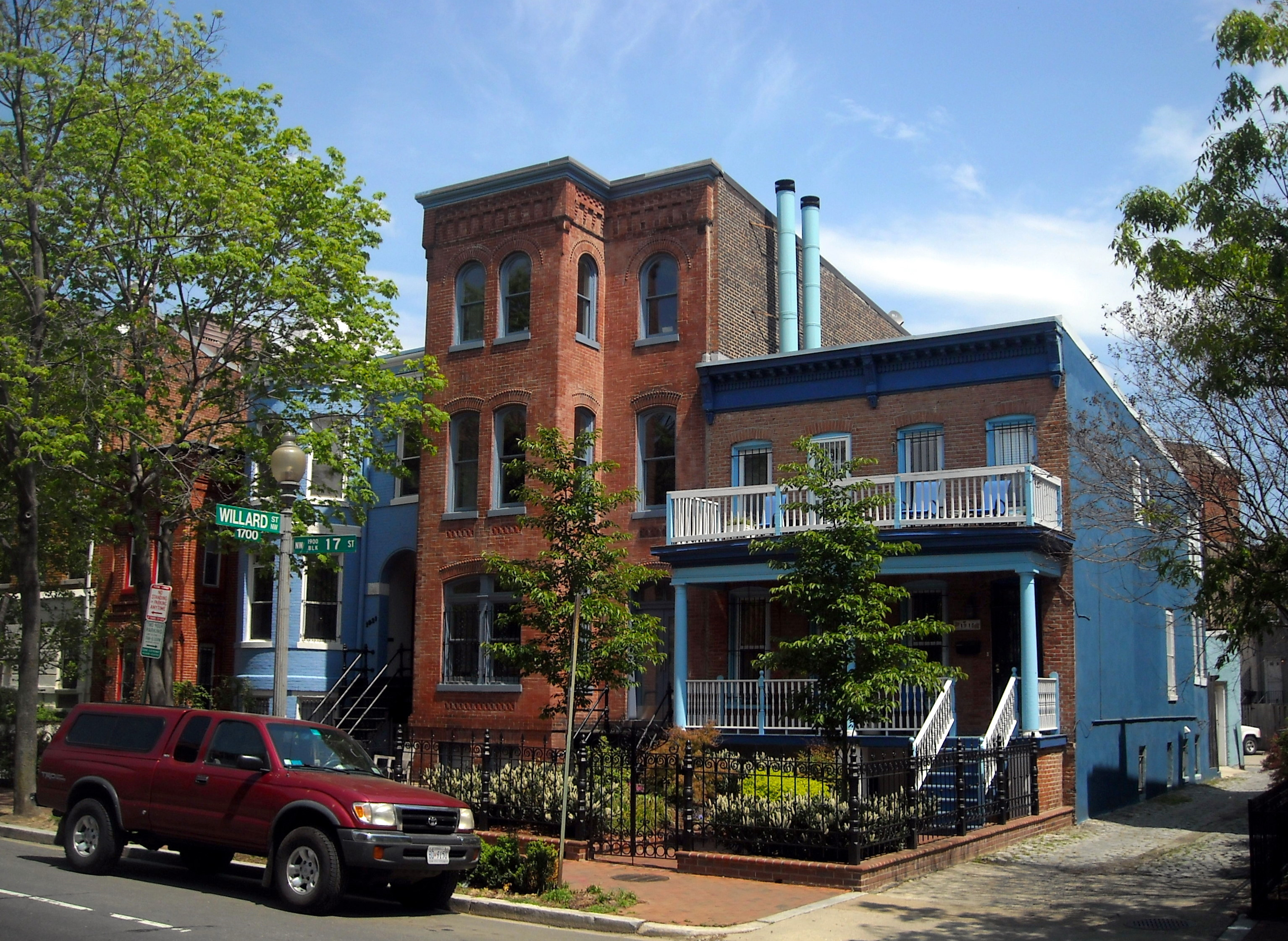 Row houses located at 1915–1921 17th Street, N.W., (at the intersection of 17th and Willard Streets, N.W.) in the Dupont Circle neighborhood of Washington, D.C. The brick, Italianate-style homes are designated as contributing properties to the Strivers' Section Historic District, listed on the National Register of Historic Places in 1985. 1915 17th Street, N.W. (right) – Built and designed by the architectural firm of Haywood & Hutchinson in 1878, occupants have included Steven Clemons, publisher of The Washington Note. 1919 17th Street, N.W. (center) – Built in 1893, occupants have included Richard Parks Bland, a U.S. Representative and presidential candidate in the 1896 election. 1921 17th Street, N.W. (left) – Built in 1893, occupants have included Frederick Vernon Coville (and his wife, Elizabeth Harwood Boyton Coville), chief botanist for the U.S. Department of Agriculture, authored 170 scientific works, established the U.S. National Herbarium, and supervised the establishment of the United States National Arboretum; and Vernon Orlando Bailey, a pioneering naturalist and mammalogist, the first field agent of the Division of Economic Ornithology and Mammology, authored 244 scientific works, and husband of Florence Augusta Merriam Bailey.